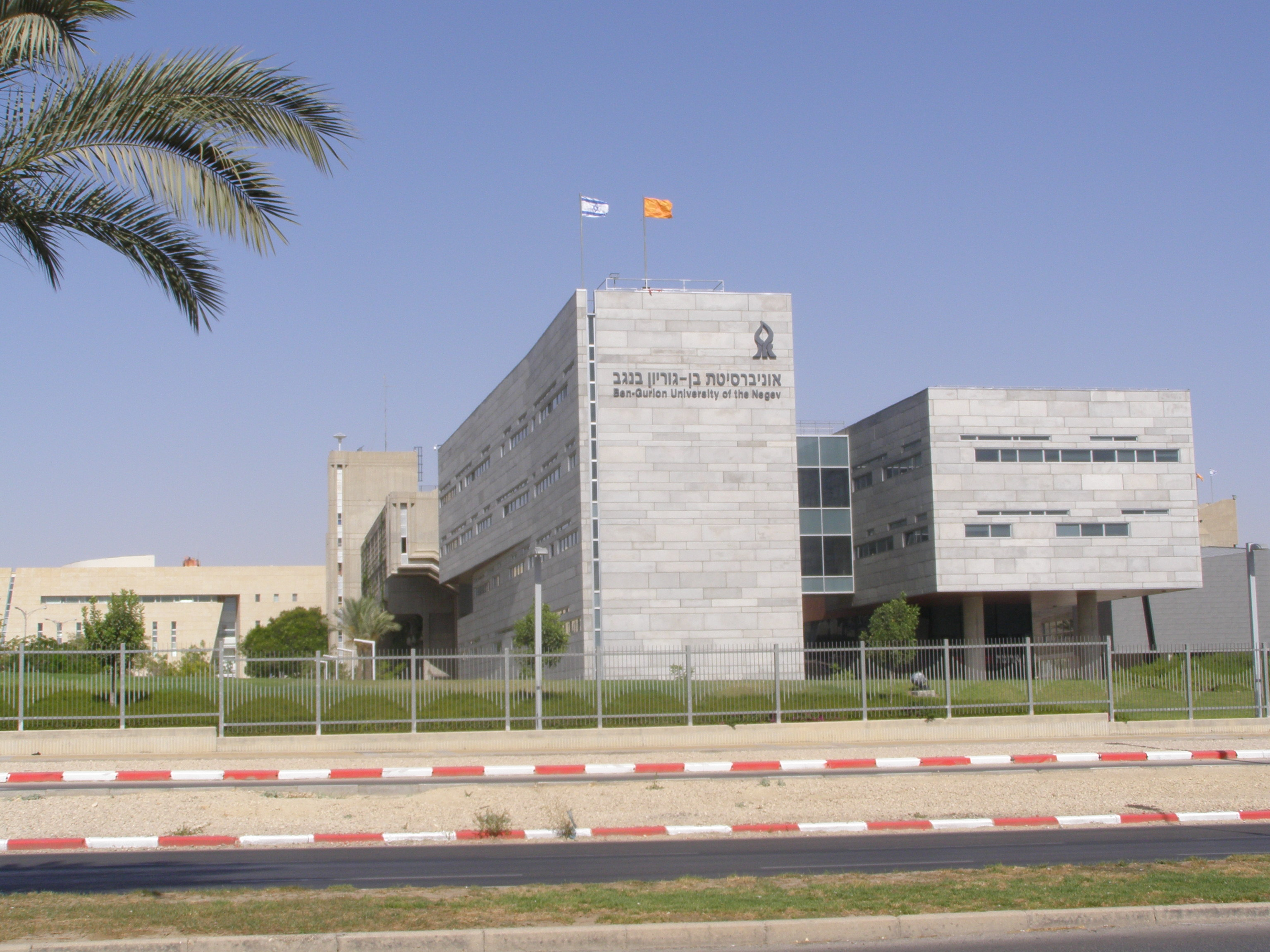 Beersheba, Ben-Gurion University of the Negev